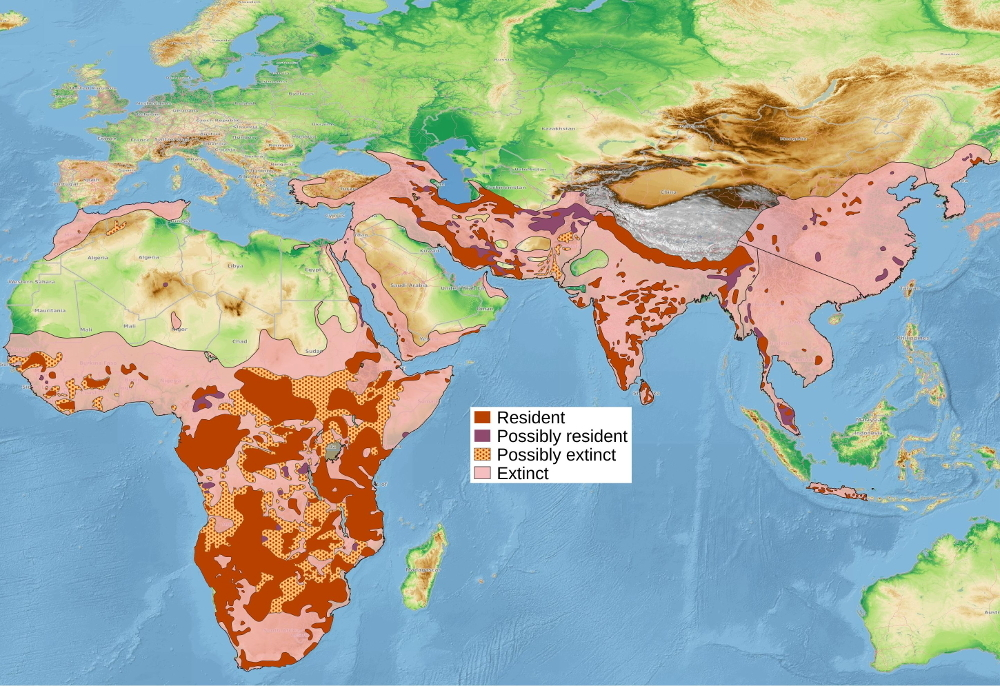 Leopard distribution map 2019